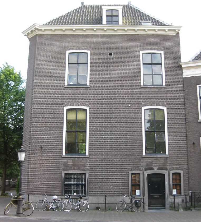 Janskerkhof 2, Utrecht, The Netherlands